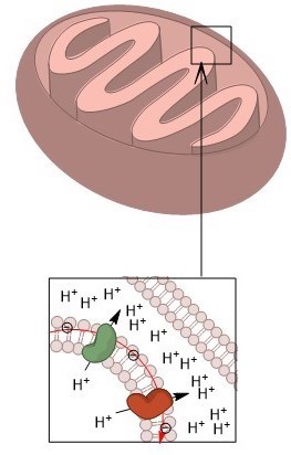 A zoomed in snapshot of the proton gradient created across the mitochondrial inner membrane.